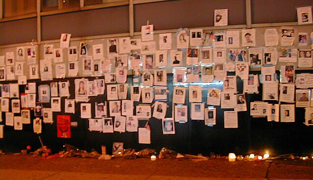 Facing view of missing person flyers outside NYU's Greenberg Hall, one of many impromptu displays throughout Manhattan, September 18. 2001.